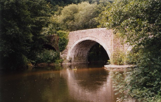 Llawhaden Bridge. This bridge was repaired in 1809. It crosses the Eastern Cleddau river. On the hill to the west is Llawhaden Castle, and the church is by the river upstream of the bridge.